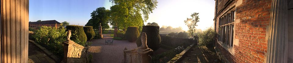 Soulton Hall forecort